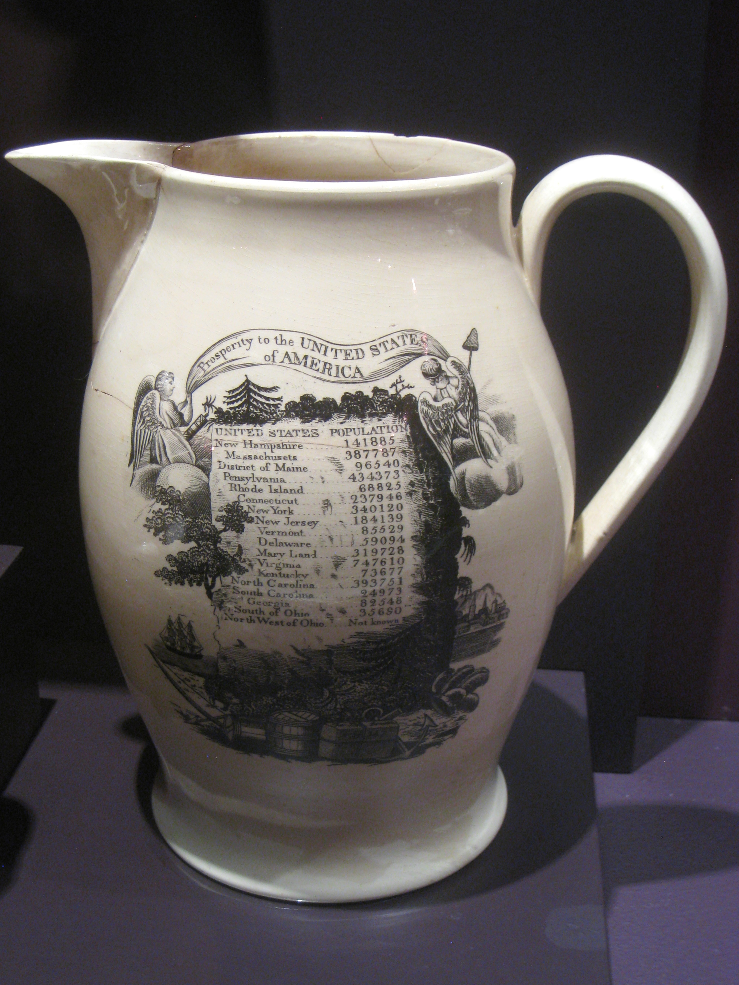 Pitcher, earthenware with transfer-printed decoration - population of the United States; English, circa 1790. Pottery exhibited in the DAR Museum, National Society Daughters of the American Revolution, 1776 D Street NW, Washington, DC, USA.